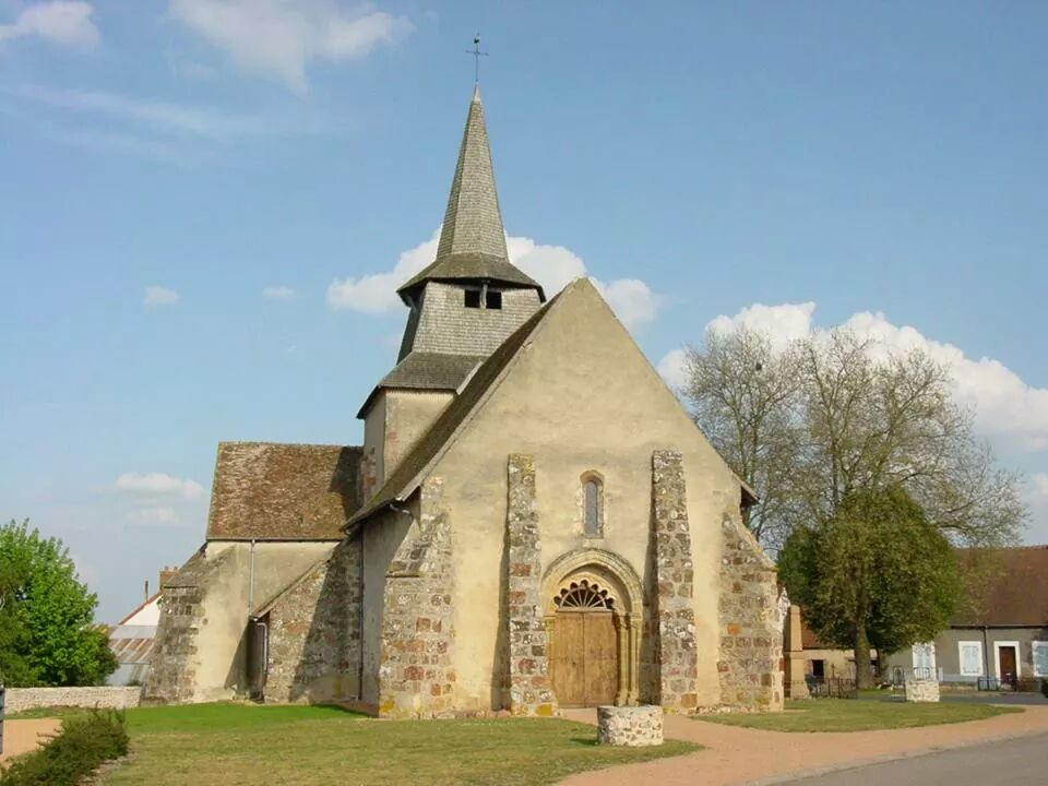 Église Saint-Martial de Deneuille-les-Mines.